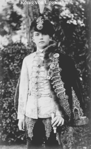 Otto von Habsburg, Crown Prince of Austria (1912-2011)